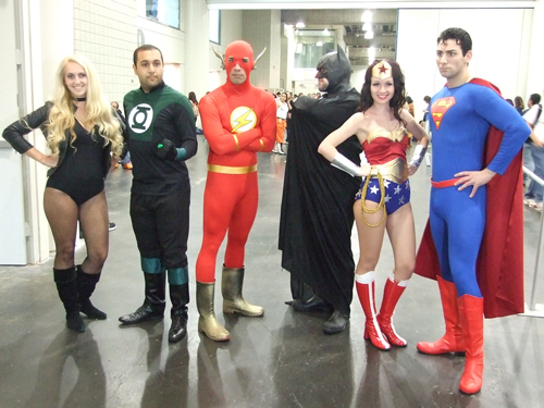 Cosplay of DC Comics characters at New York Comic Con 2013 (NYCC 2013). From left to right: Black Canary, Green Lantern, The Flash, Batman, Wonder Woman, and Superman.